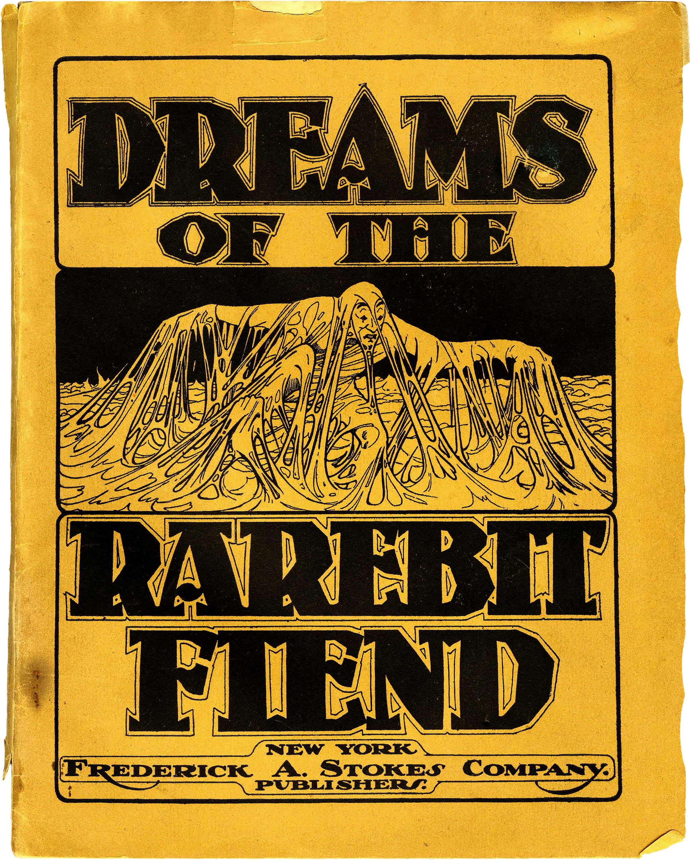 Cover of the first collection of the comic strip Dream of the Rarebit Fiend, entitled Dreams of the Rarebit Fiend, by American cartoonist Winsor McCay.